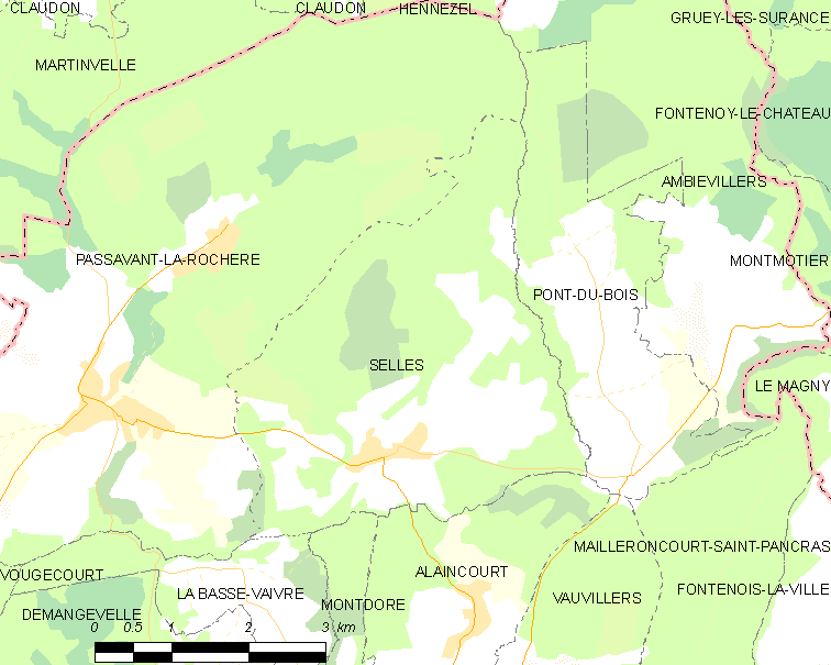 Map of French municipality